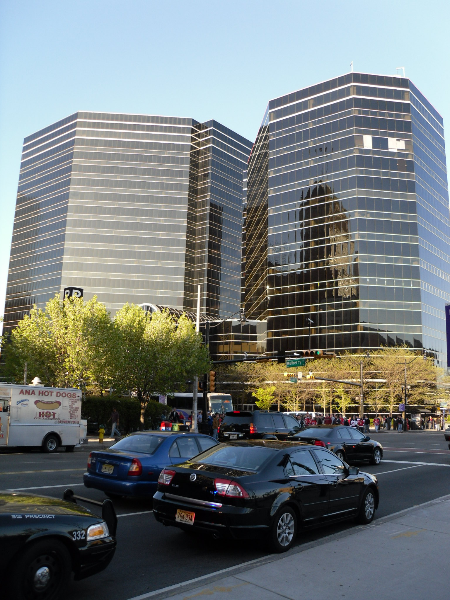 Gateway Center III & IV in Newark, NJ